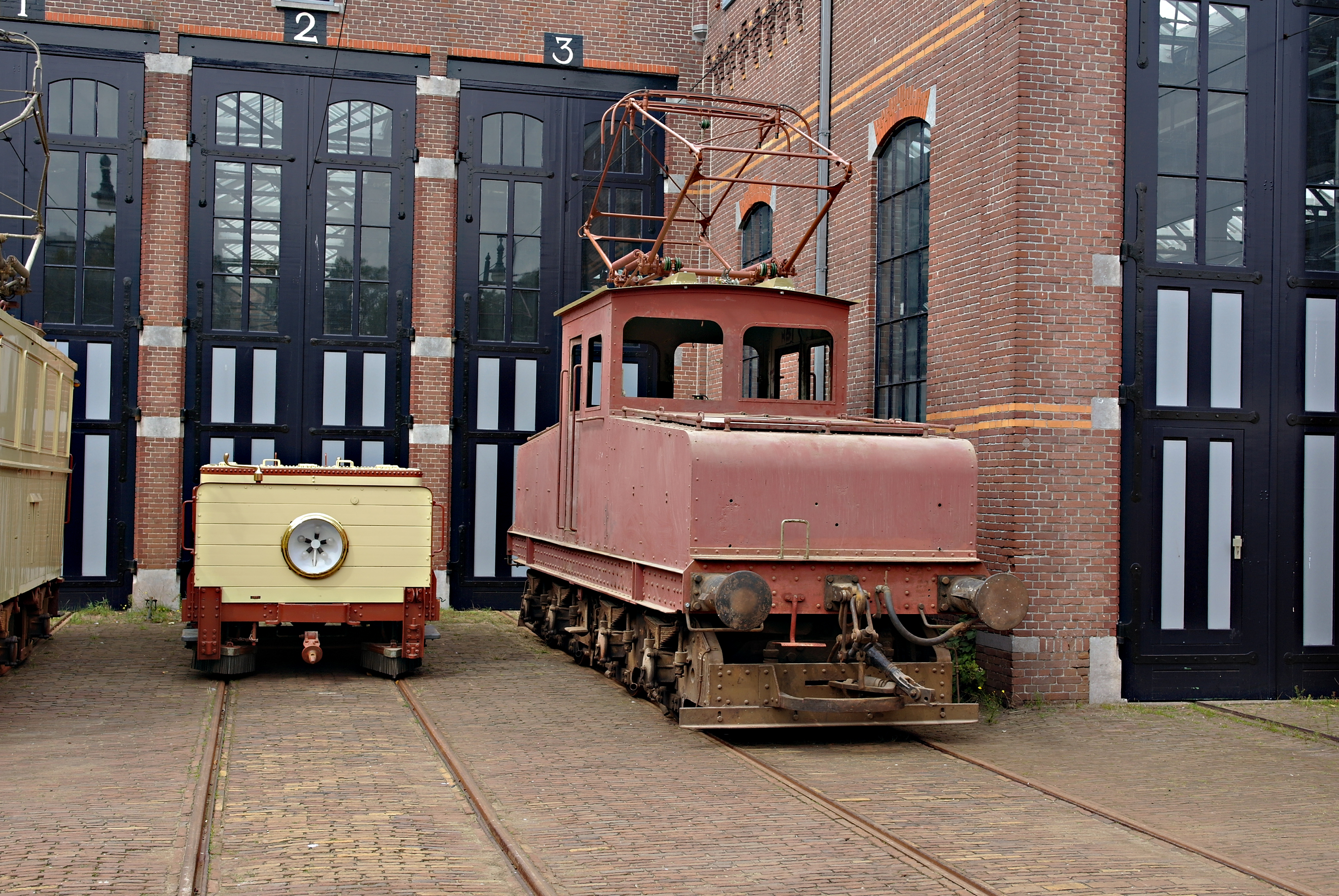 Tram 2310, work car, The Hague, The Netherlands